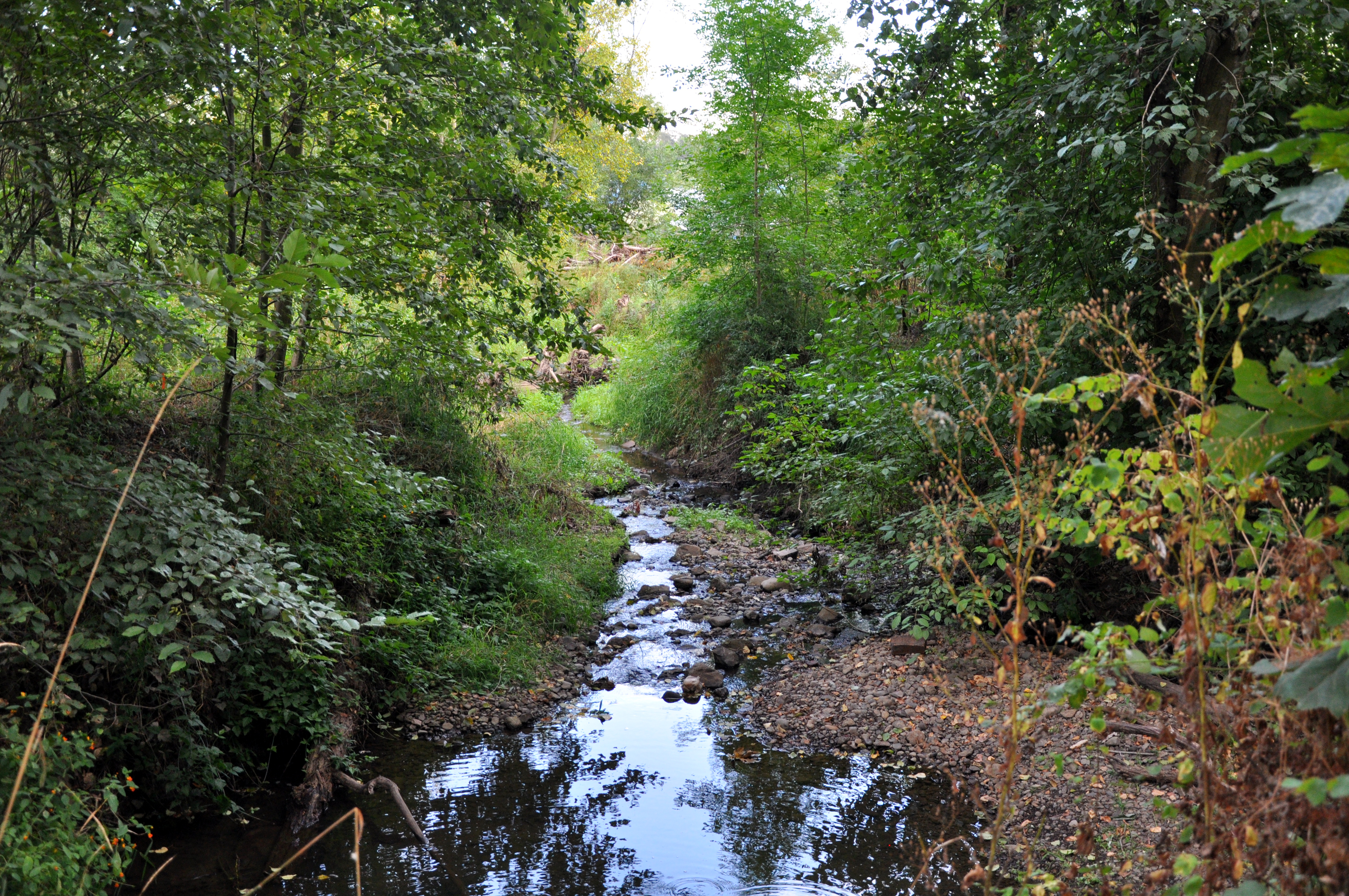 Stephens Creek near its confluence with the Willamette River in Portland, Oregon, United States. View is from a pedestrian and bicycle trail near Butterfly Park.